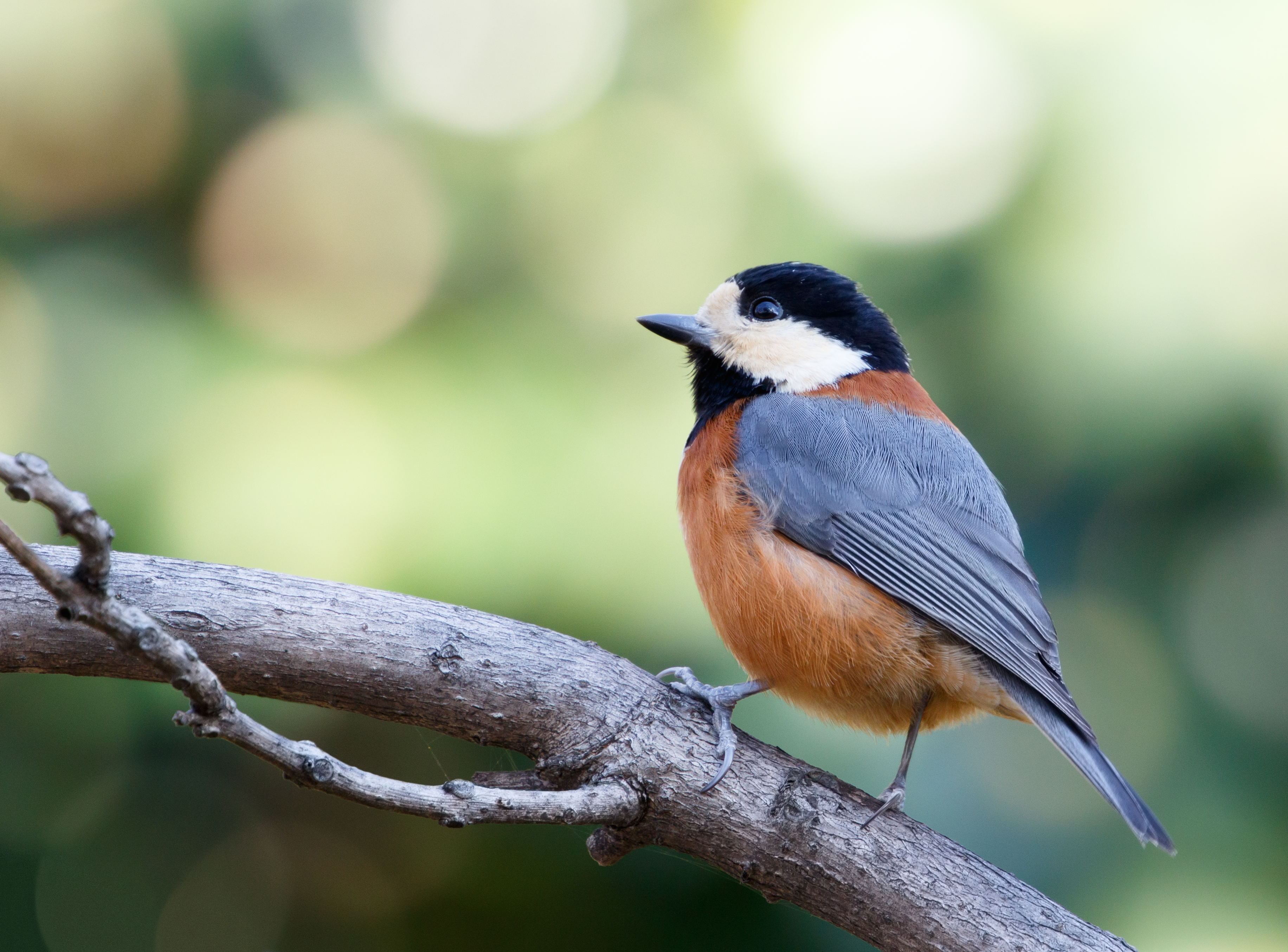 Varied tit at Tennōji Park in Osaka.